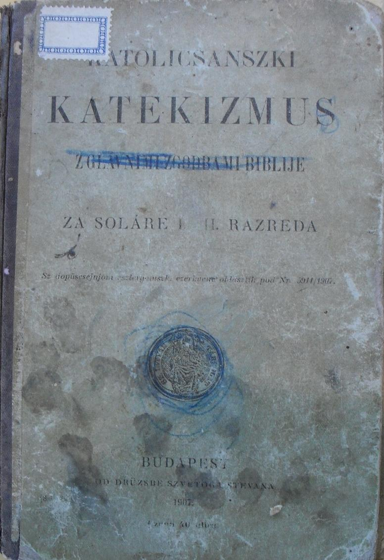 Katolicsanszki katekizmus z glávnimi zgodbami biblije (Catholic cathecism with primal historys of Biblie), József Szakovics's catholic cathecism in prekmurian language (prekmurščina), first hard-page (19107). Sometime was the property of Verona Perša from Žižki.